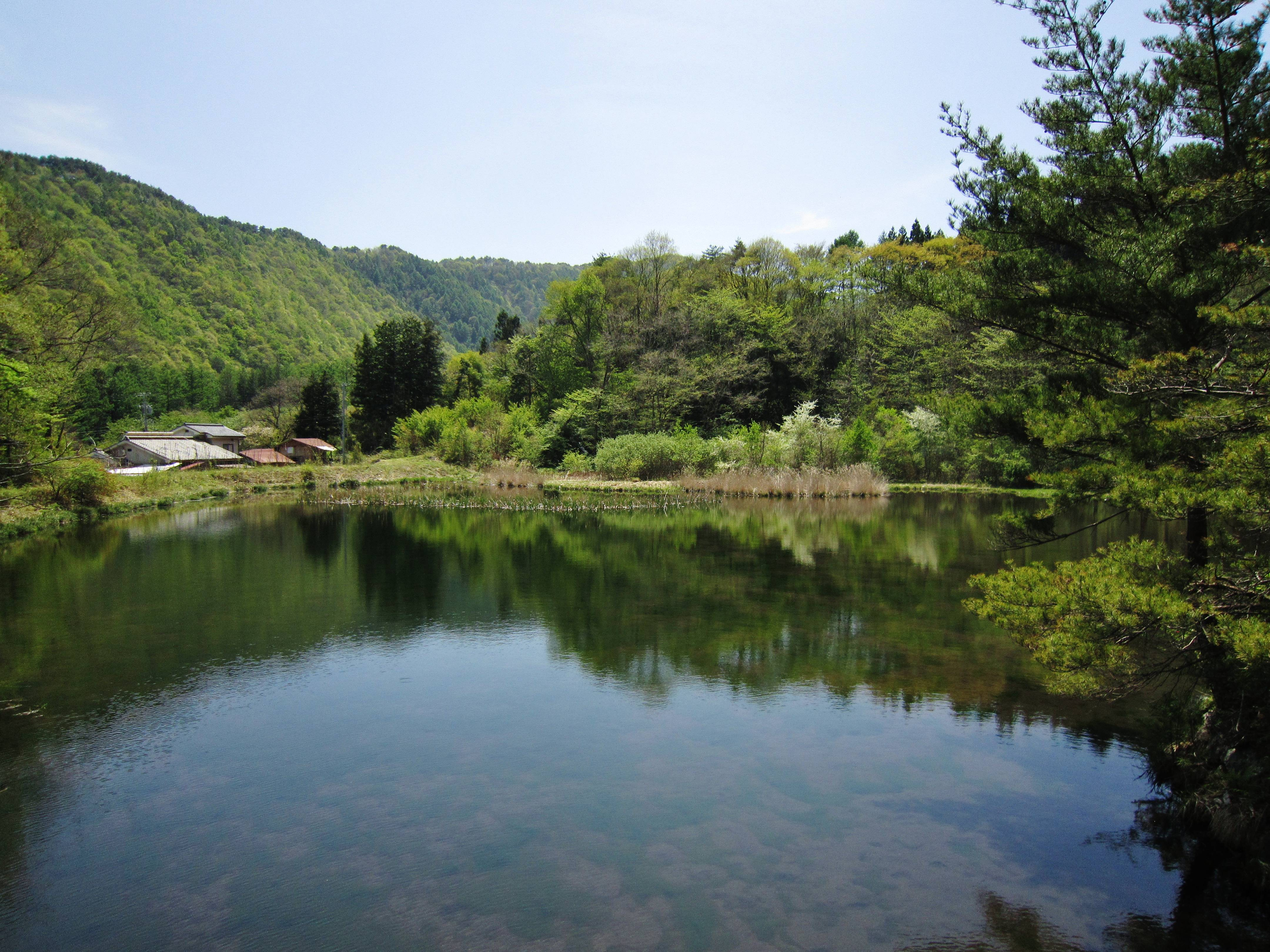 Yonoike.